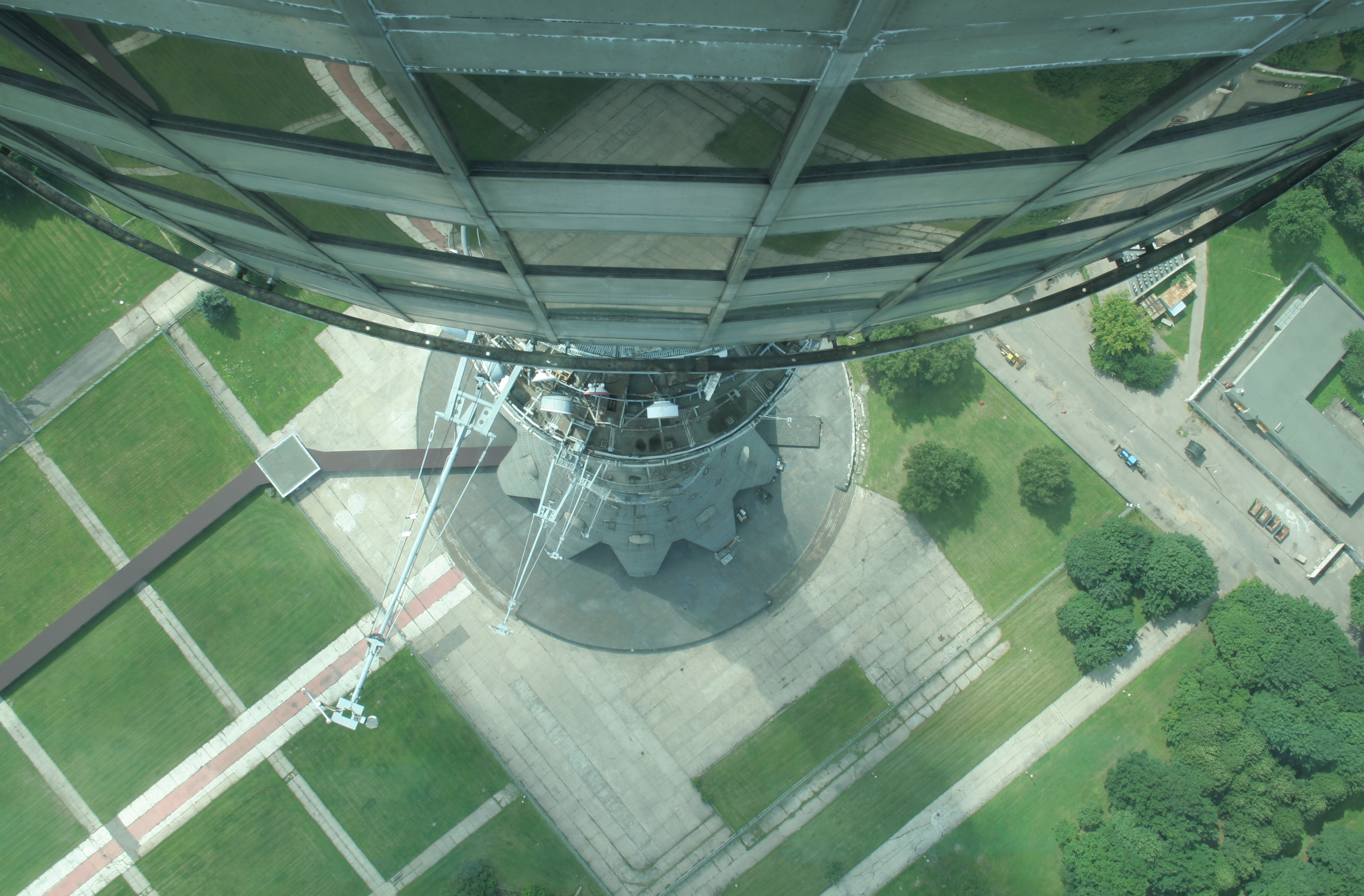 Views from the observation deck of the Ostankino Tower, Moscow